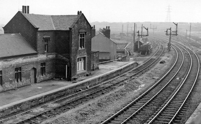 Broughton Lane Station (remains). View NE, towards Rotherham, etc.; ex-Great Central (South Yorkshire) main line, Sheffield (Victoria) - Mexborough and Doncaster/York, an immensely busy line in the industrial Don Valley. The station was closed on 3/4/56: its site is now under the Greeland Road viaduct and its local function nowadays supplanted by the Sheffield Supertram.